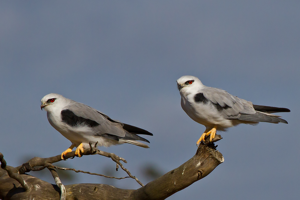 Two Black-shouldered Kites in Newstead, Victoria, Australia.